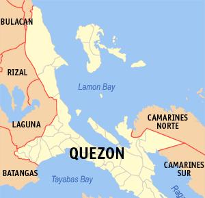 Lamon Bay